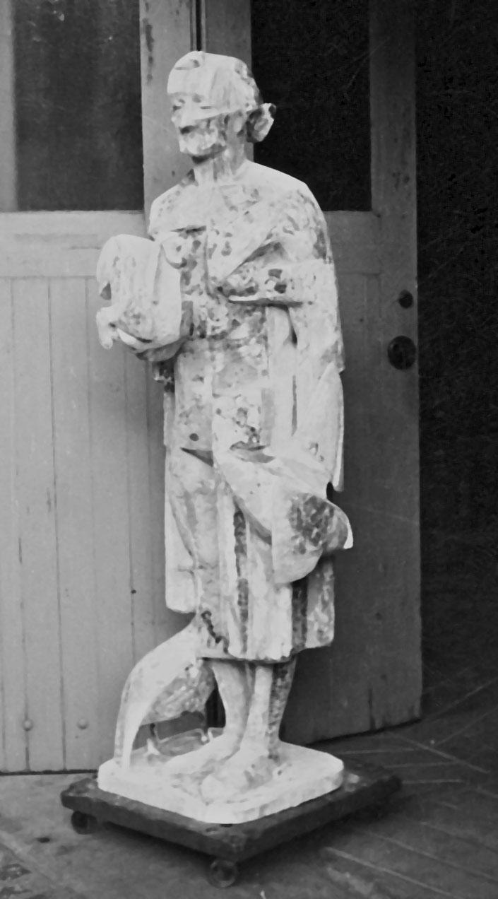 Photograph of the statue called Hen Wife by Ann henderson